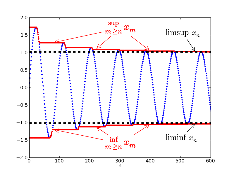 bigger fonts for the depiction of lim sup/inf